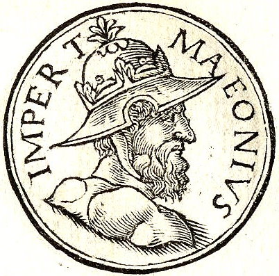 Maeonius was a short-lived Roman usurper. He is also known with the names of Odaenathus (Syncellus I p. 717) and Rufinus (Continuator of Cassius Dio frg. 166).